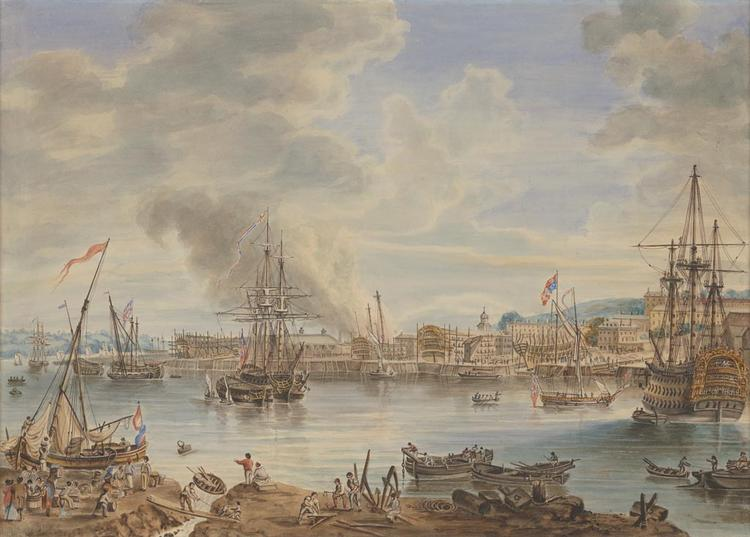 HMS Royal George on the right fitting out in the River Medway off what is now Sun Pier, with HMS Queen Charlotte under construction in the centre background. This is a view from Chatham Ness, today the southernmost point of the Medway City Estate